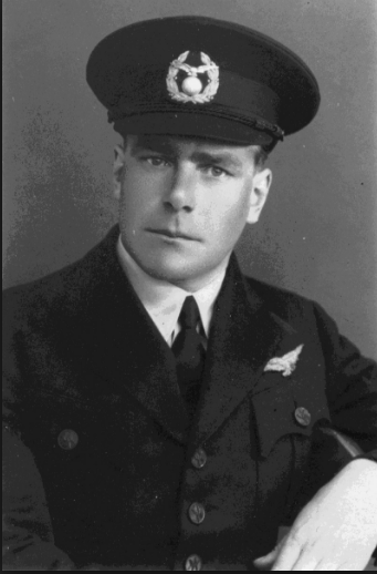 The first Finnish commercial aviator, Gunnar Lihr